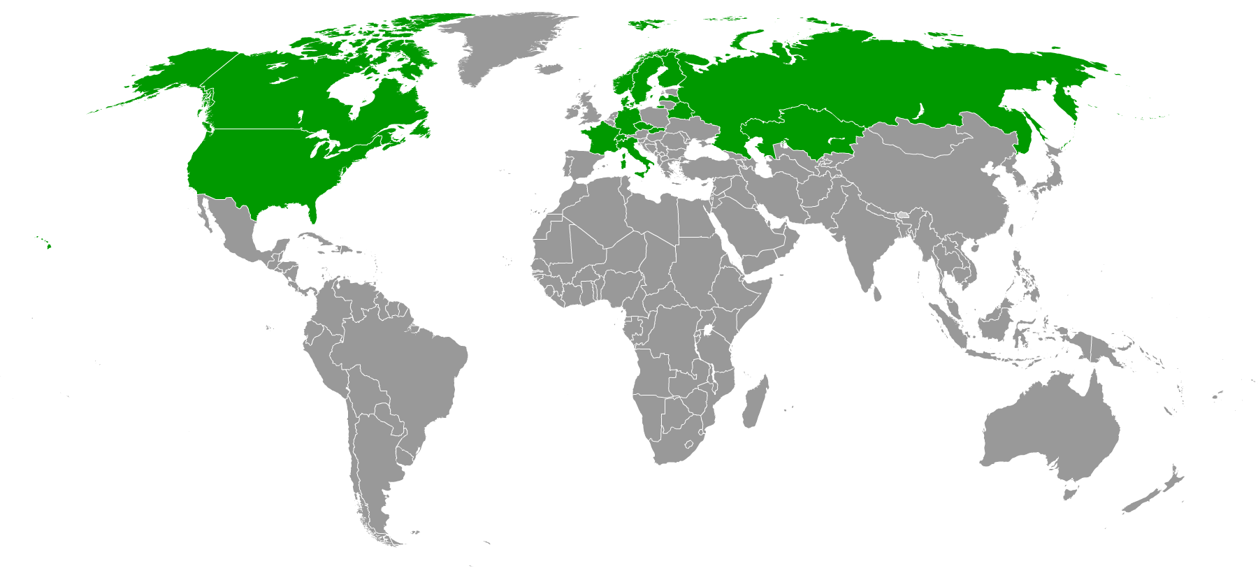 Status of countries involved in 2010 IIHF World Cup finals.